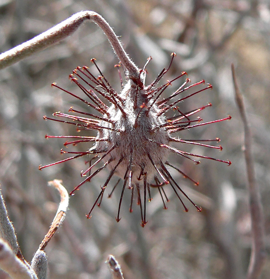 Krameria grayi fruit in the Buffington Pockets area, Valley of Fire, southern Nevada